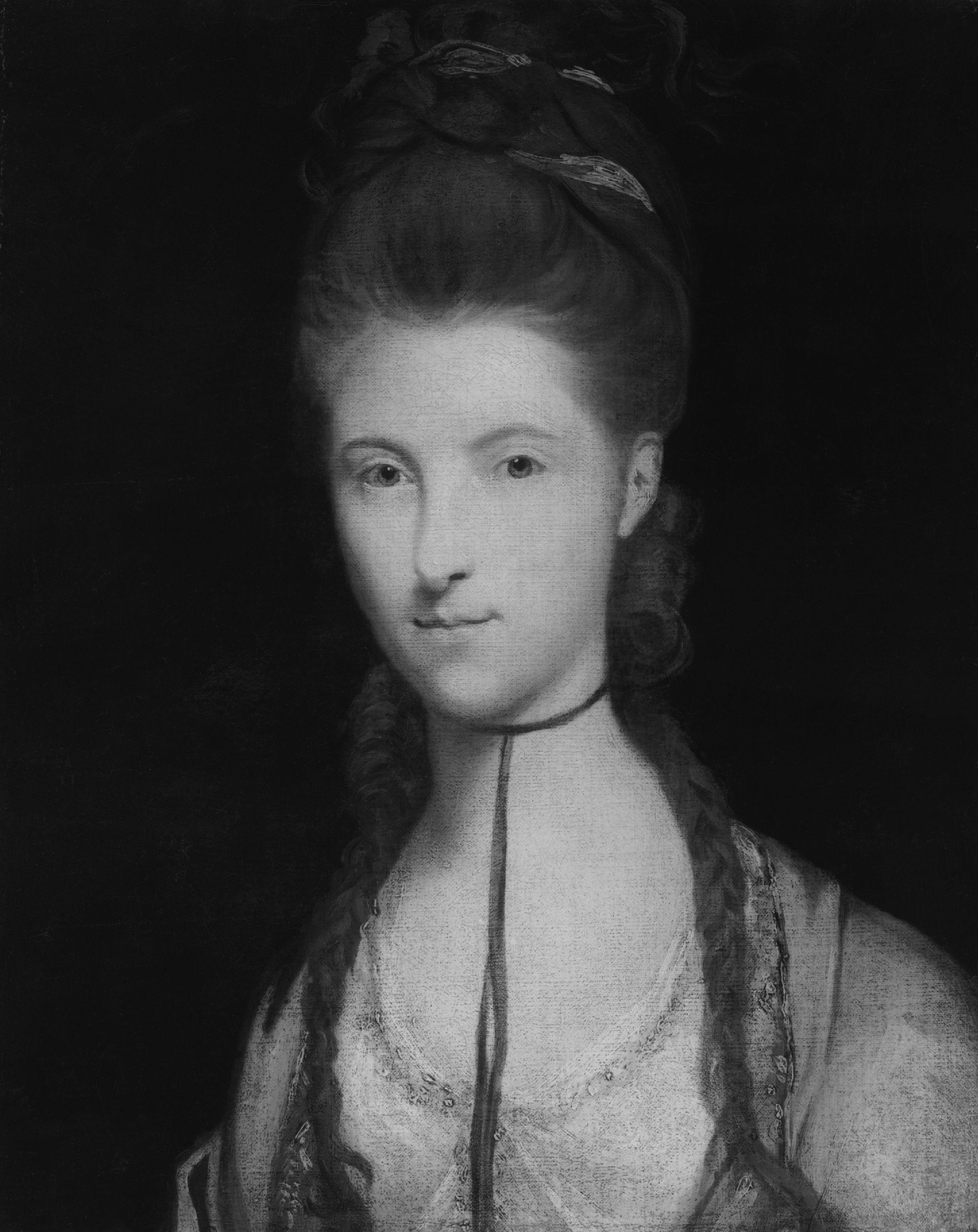 Anne Seymour Damer (née Conway), by Sir Joshua Reynolds (died 1792). All images in this batch have been confirmed as author died before 1939 according to the official death date listed by the NPG.